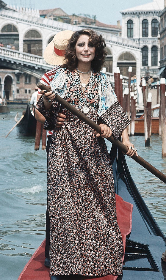 Italian singer Mia Martini (Domenica Berté) rowing on a gondola. Mia Martini has just took part in the Mostra Internazionale di Musica Leggera during which she has won the Gondola d'Oro prize with the song Donna Sola. Venice, 1973